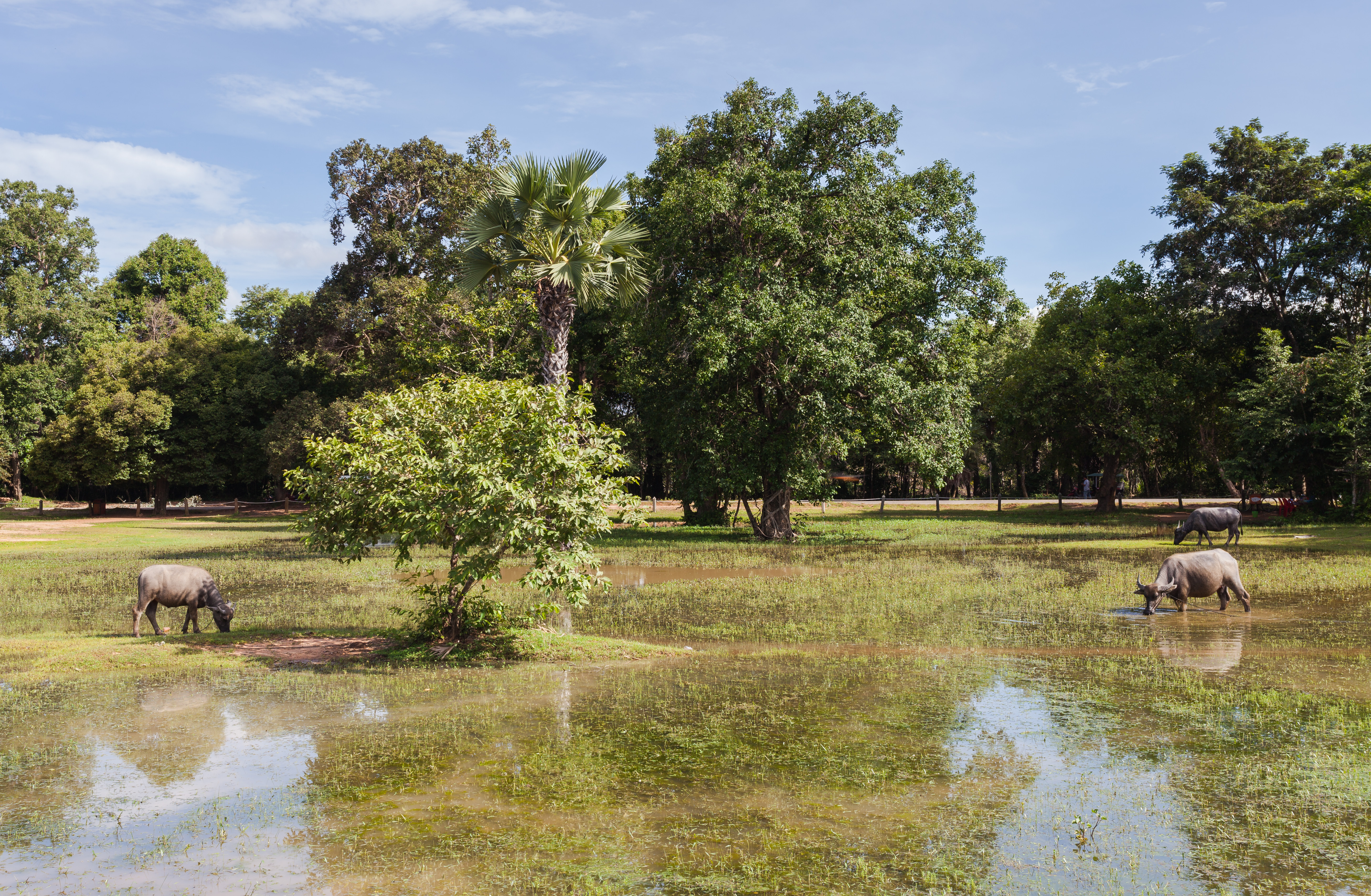 Buffaloes (Bubalus bubalis) at Pre Rup, Angkor, Cambodia